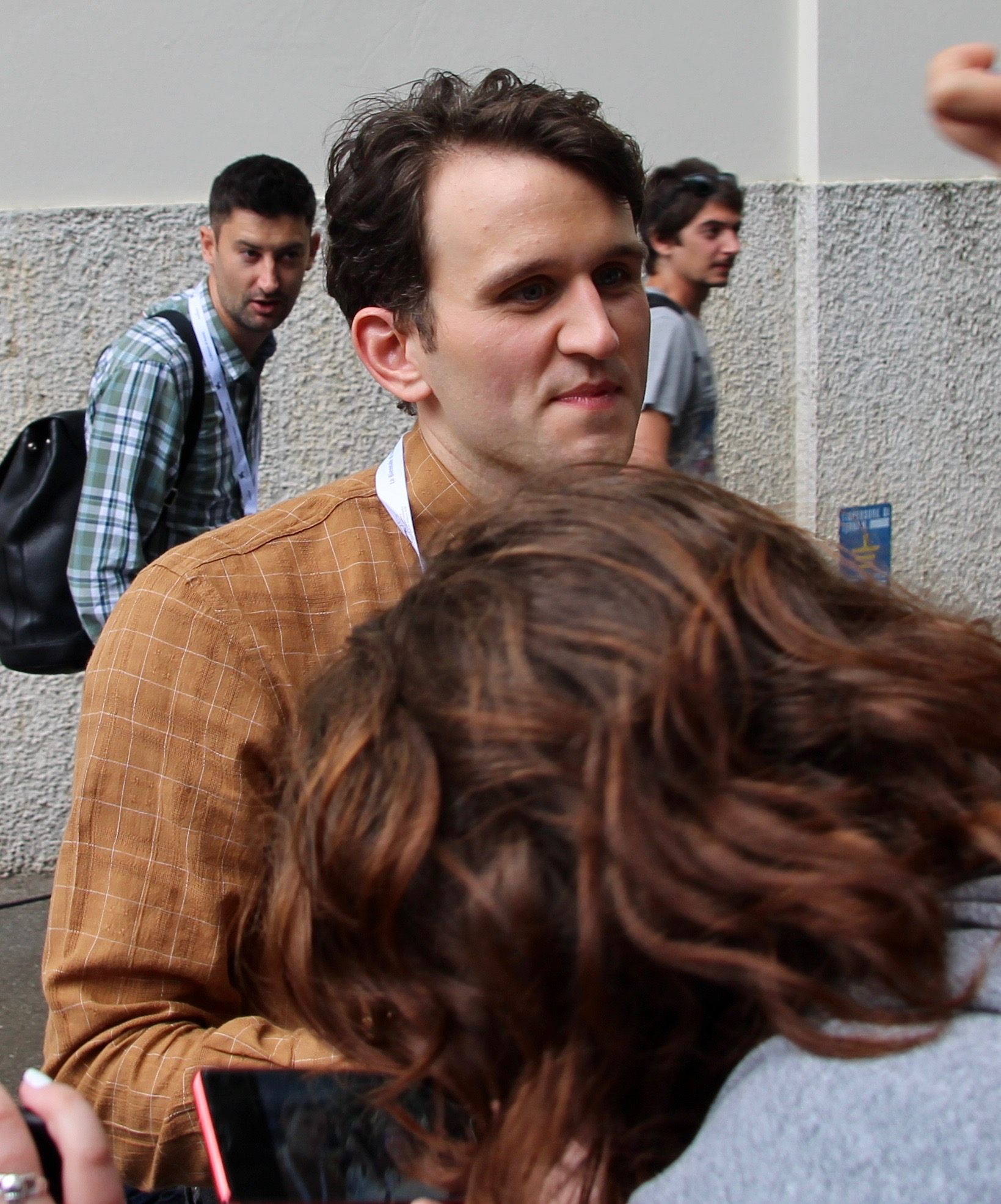 Actor Harry Melling during the 2018 Venice Film Festival